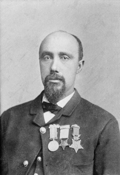 Robert A. Pinn, Medal of Honor recipient. This photograph was part of the material prepared by W.E.B. Du Bois for the Negro Exhibit of the American Section at the Paris Exposition Universelle in 1900 to show the economic and social progress of African Americans since emancipation.